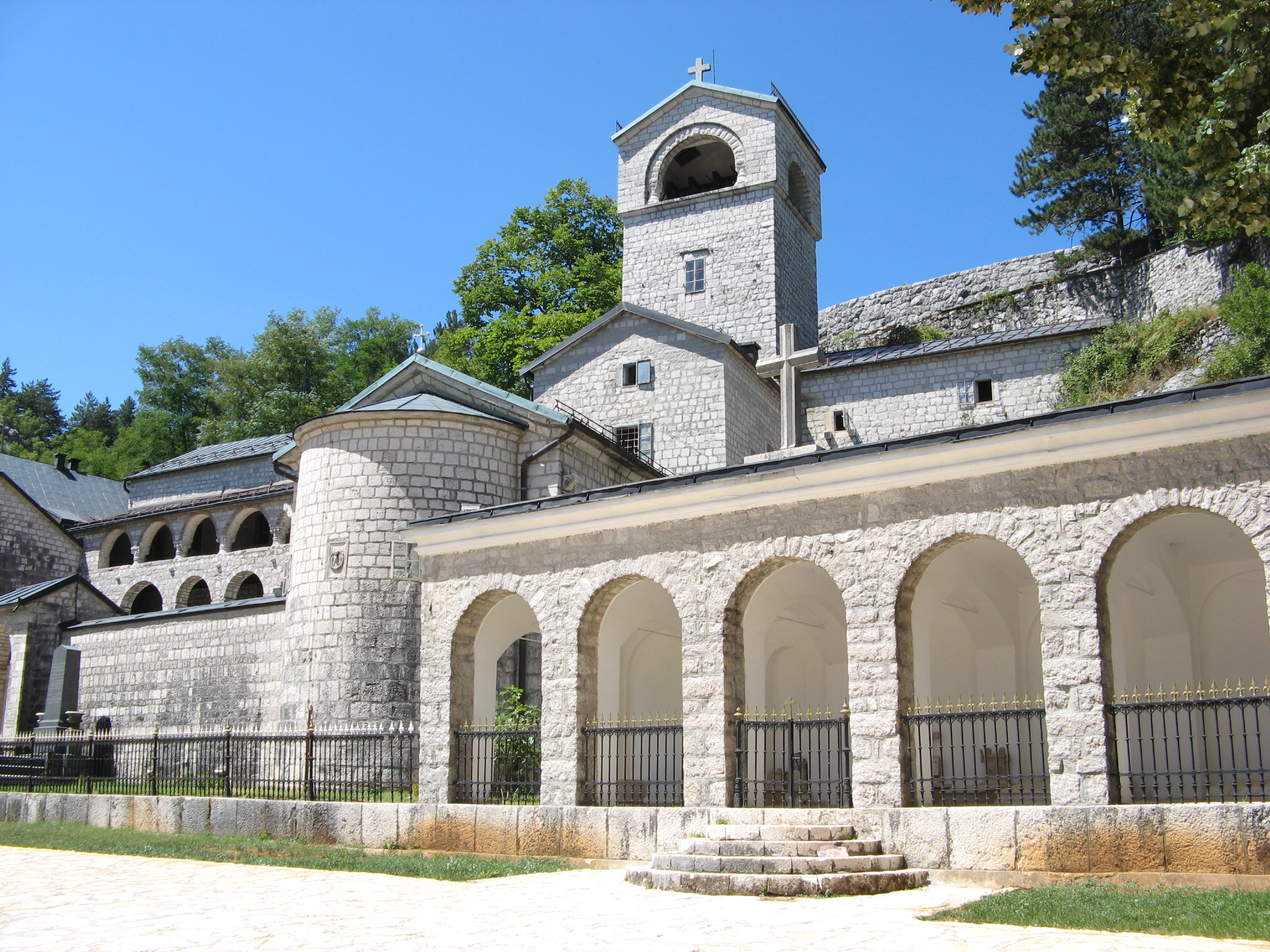 Front view of Cetinje Monastery in Montenegro.